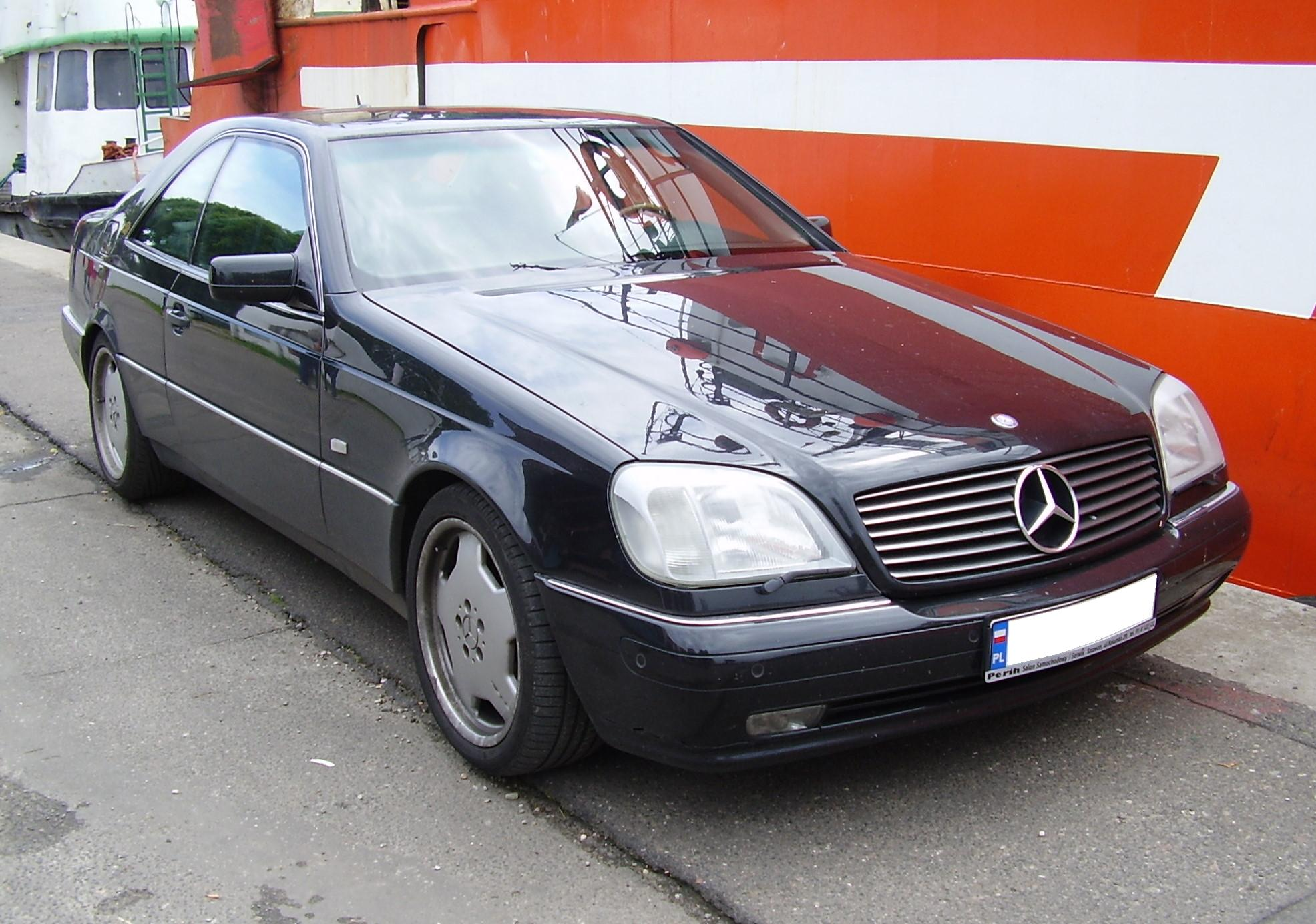 Mercedes-Benz C140 in Dziwnów (Poland)